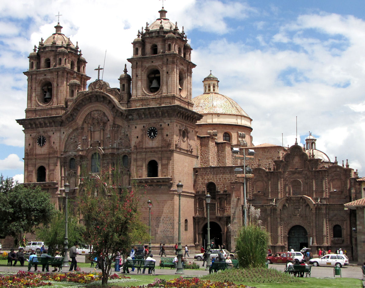 Church of la Compañía de Jesus, Cusco, Peru